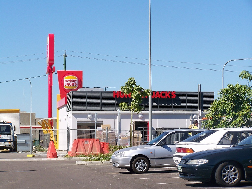 Hungry Jacks Townsville